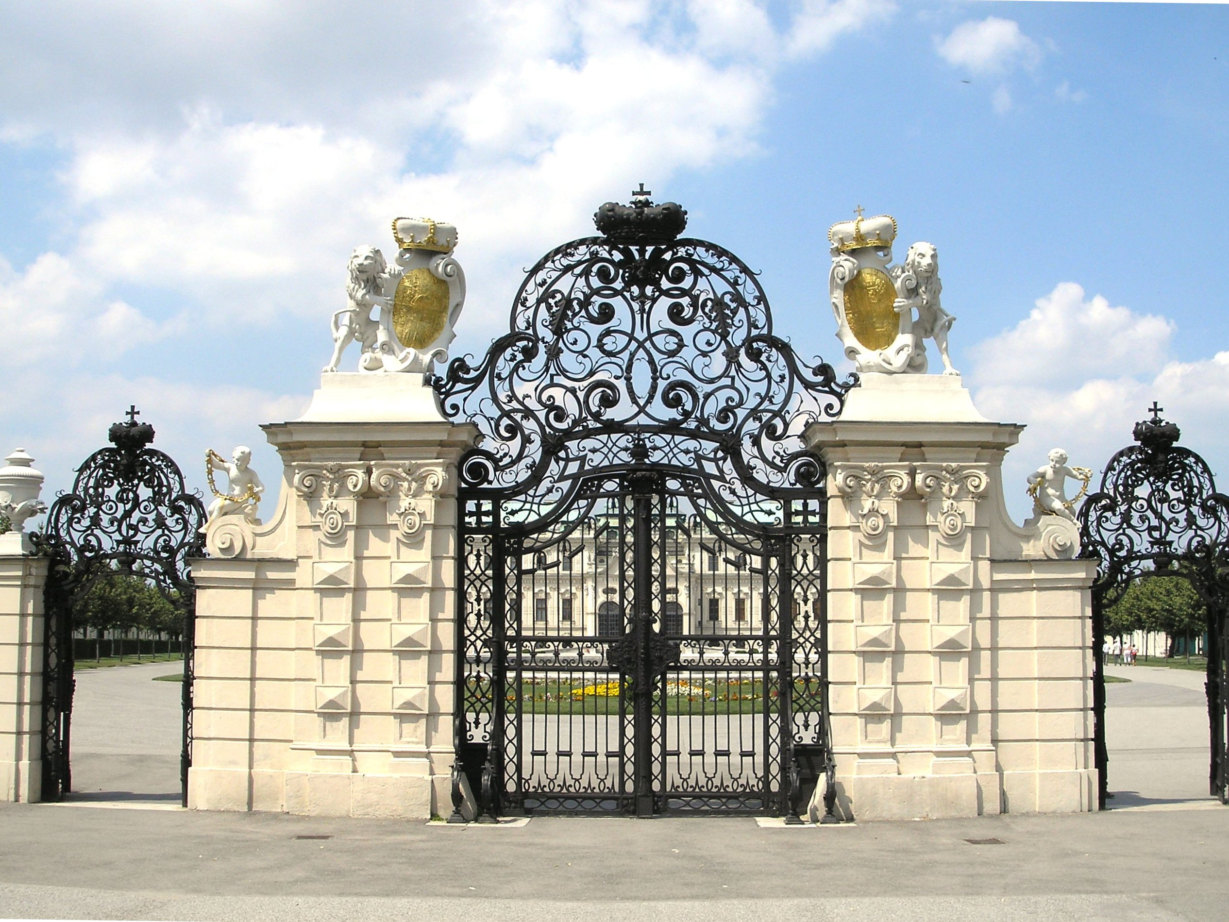 Belvedere palace in Vienna. Constructed in the baroque era for Prince Eugene of Savoy. This was his summer residence.